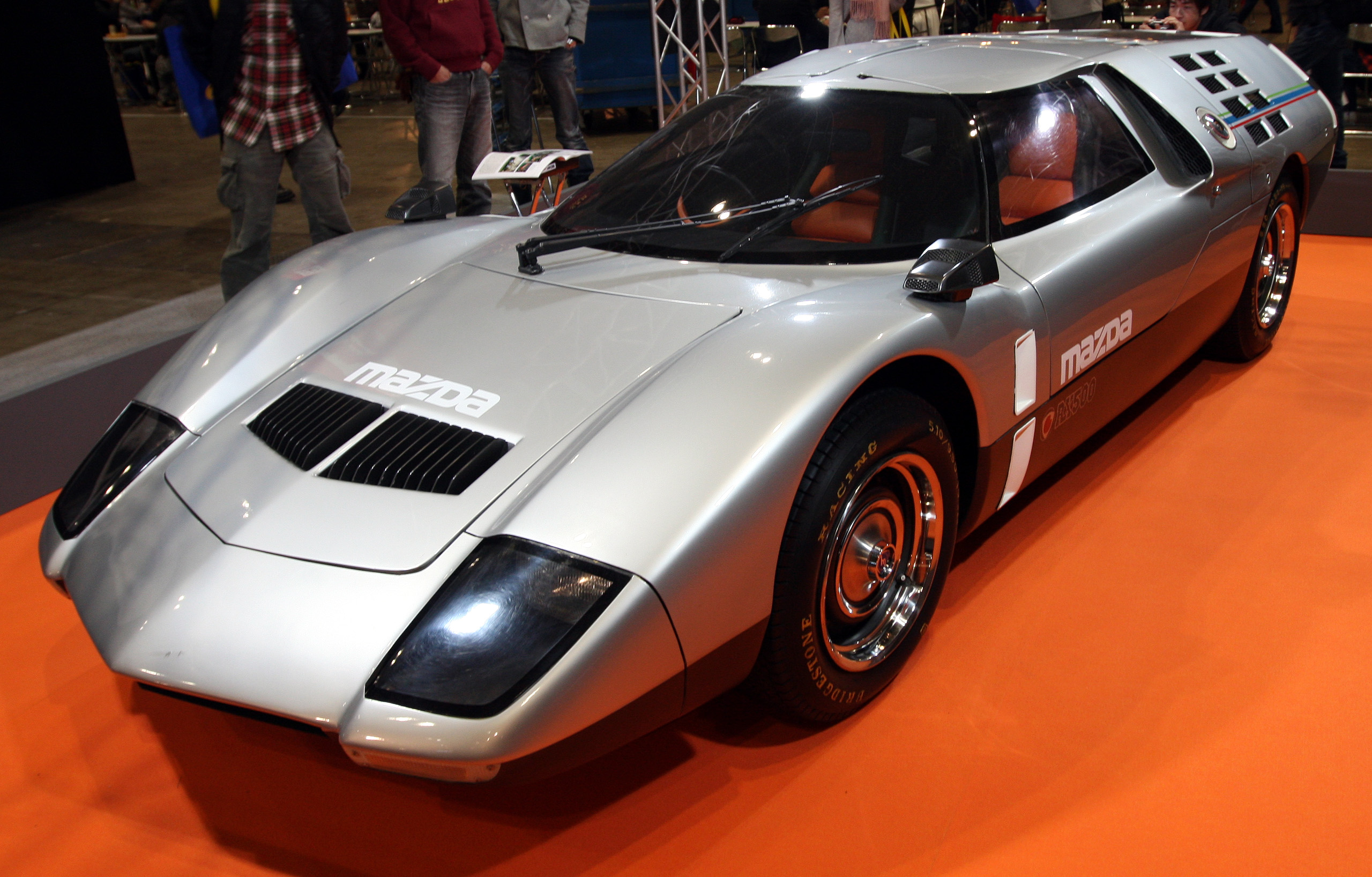 Tokyo Auto Salon 2009: Mazda RX500 (restored car)